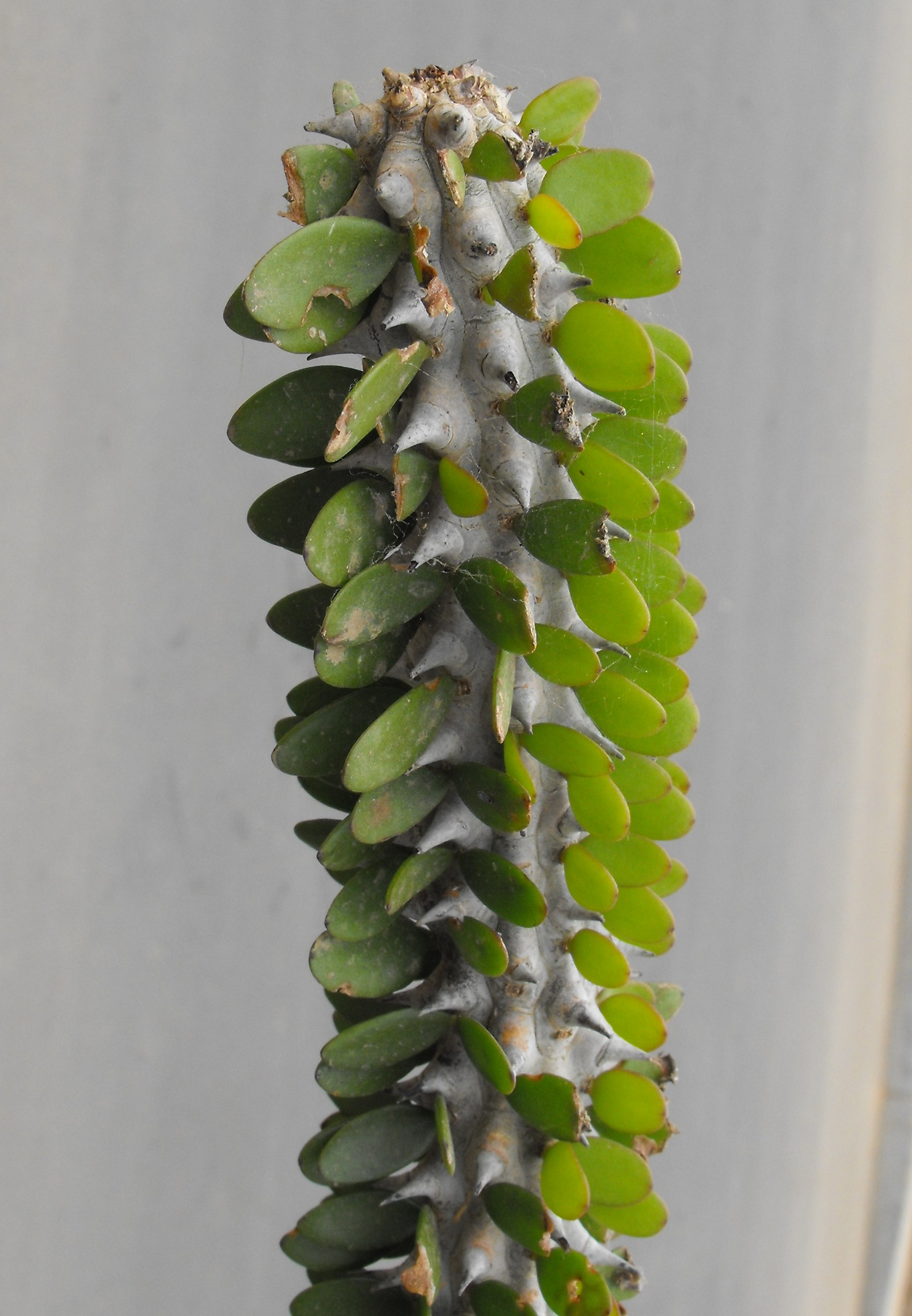 Alluaudia procera at the San Diego Zoo, California, USA. Identified by sign.